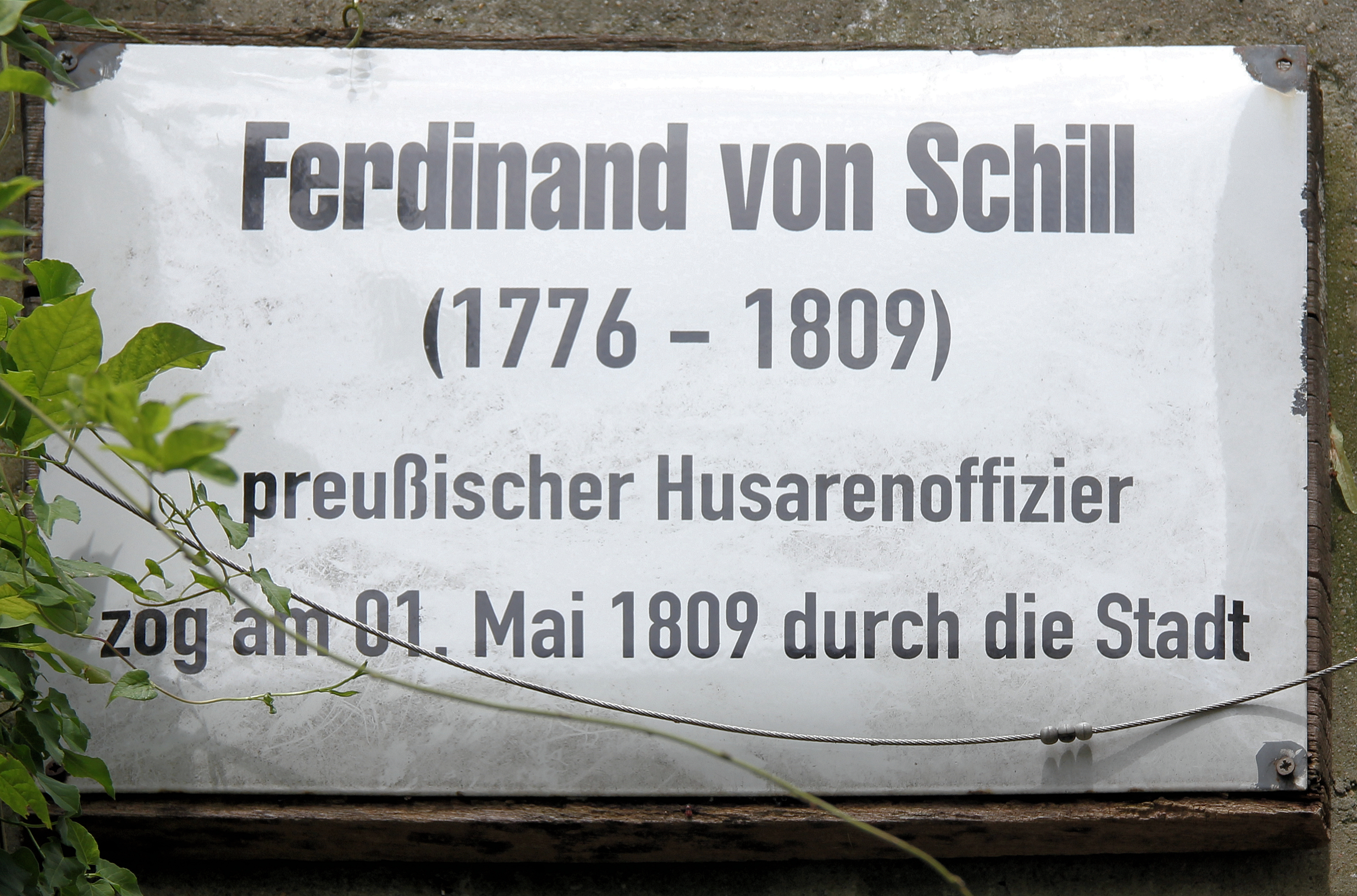 Memorial plaque, Ferdinand von Schill, Schloßplatz , Lutherstadt Wittenberg, Germany Koordinate:51°51′59″N 12°38′18″E / 51.86639°N 12.63833°E